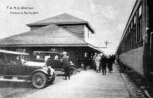 Temiskaming and Northern Ontario Railway, Iroquois Falls, Ontario.